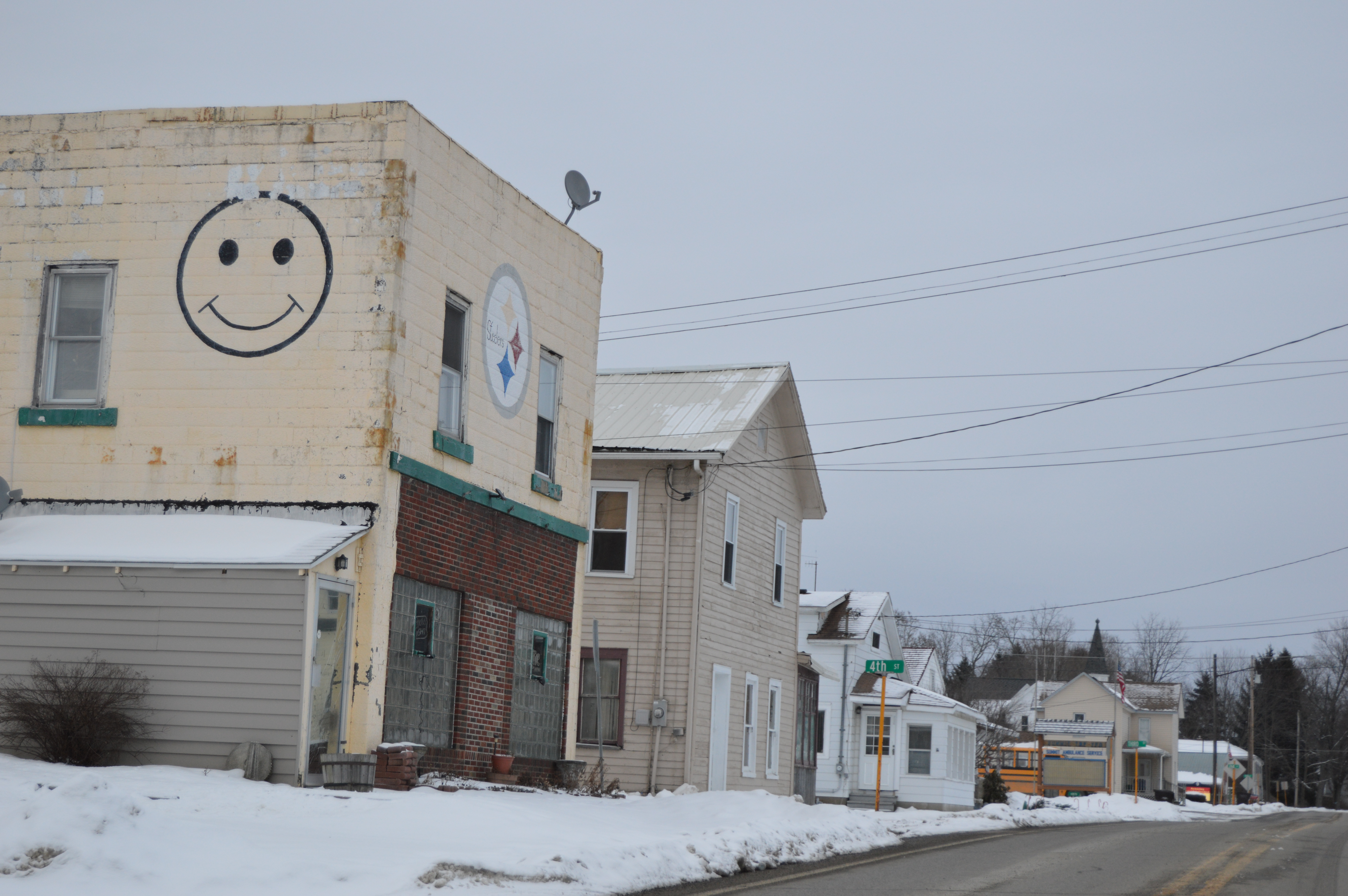 Buildings on the northern side of Plum Street east of the Pennsylvania Route 18 intersection in Harmonsburg, Pennsylvania, United States.